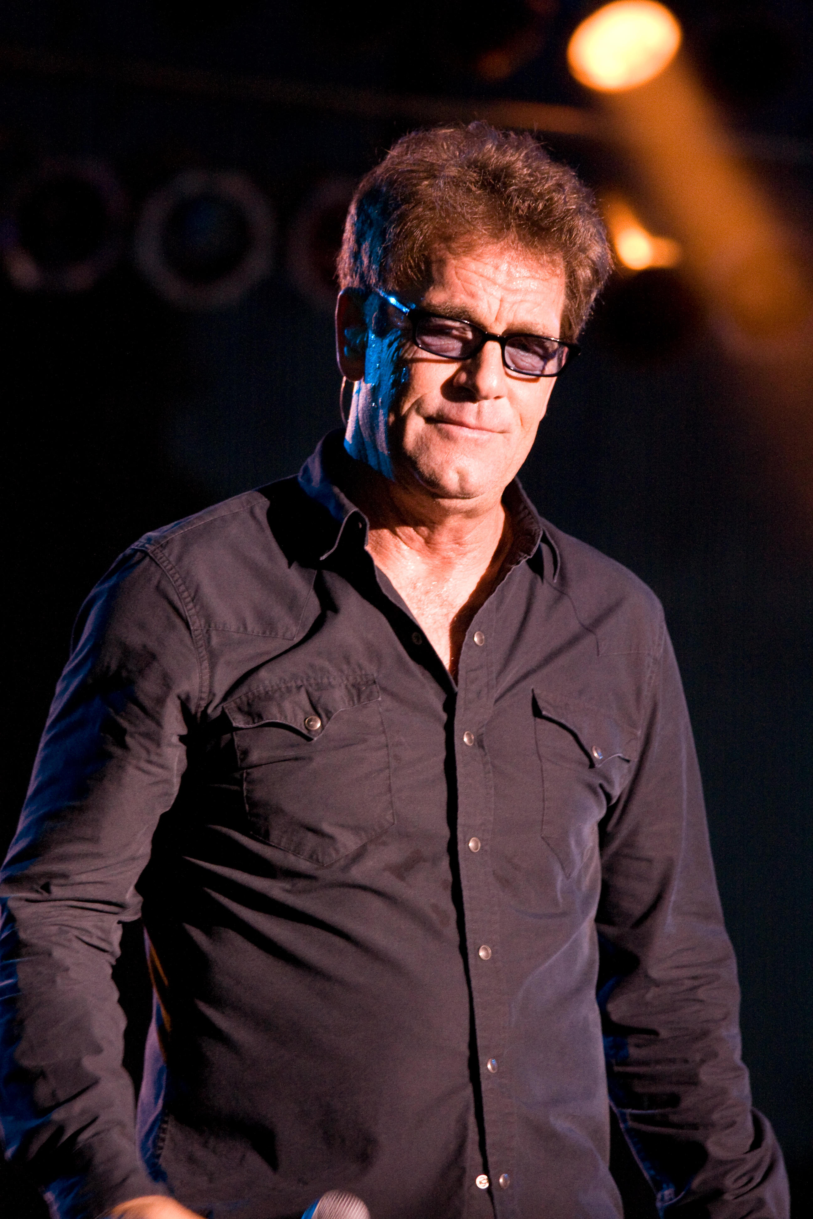 Huey Lewis performing on July 5, 2009